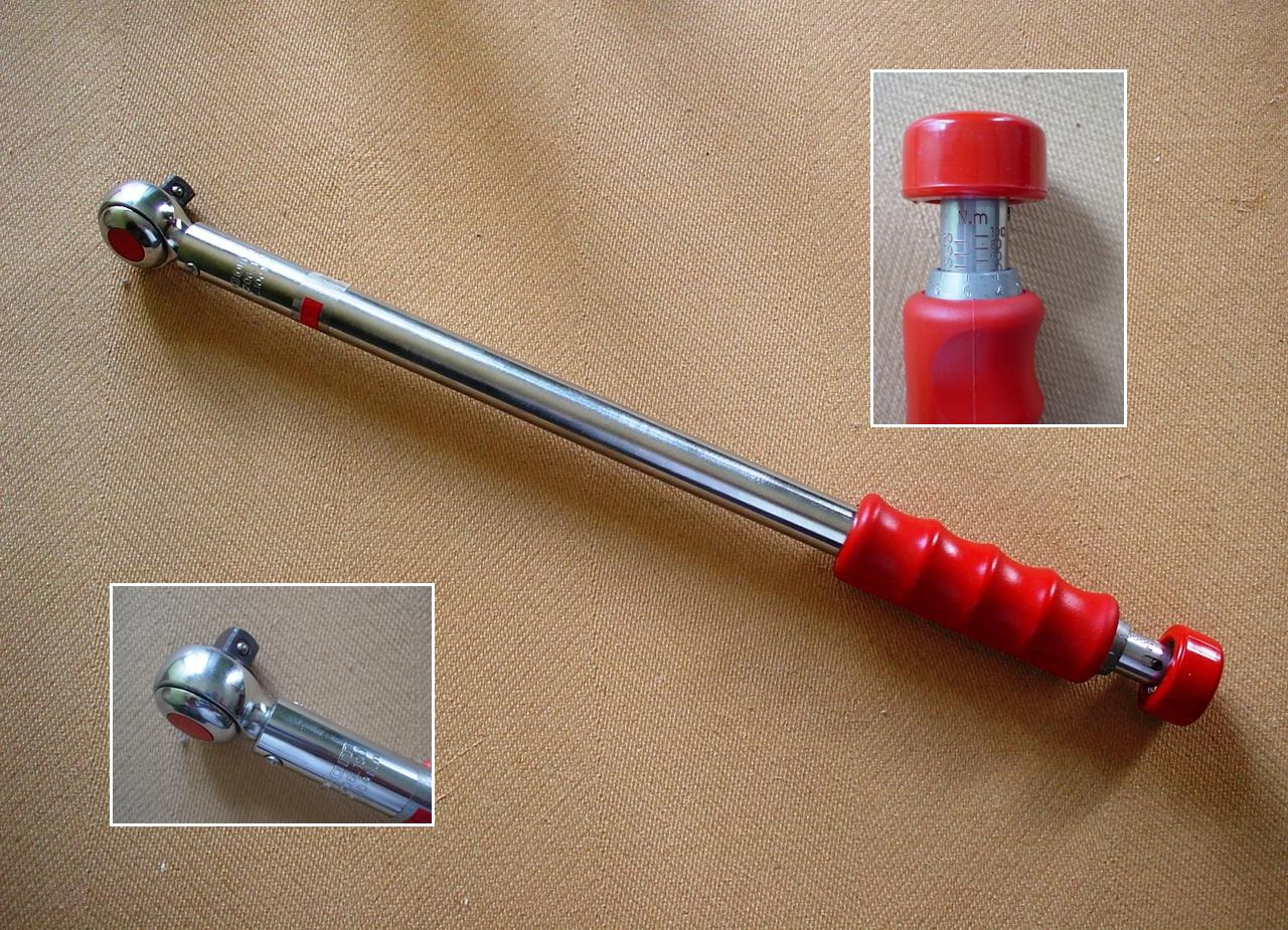 Torque wrench.